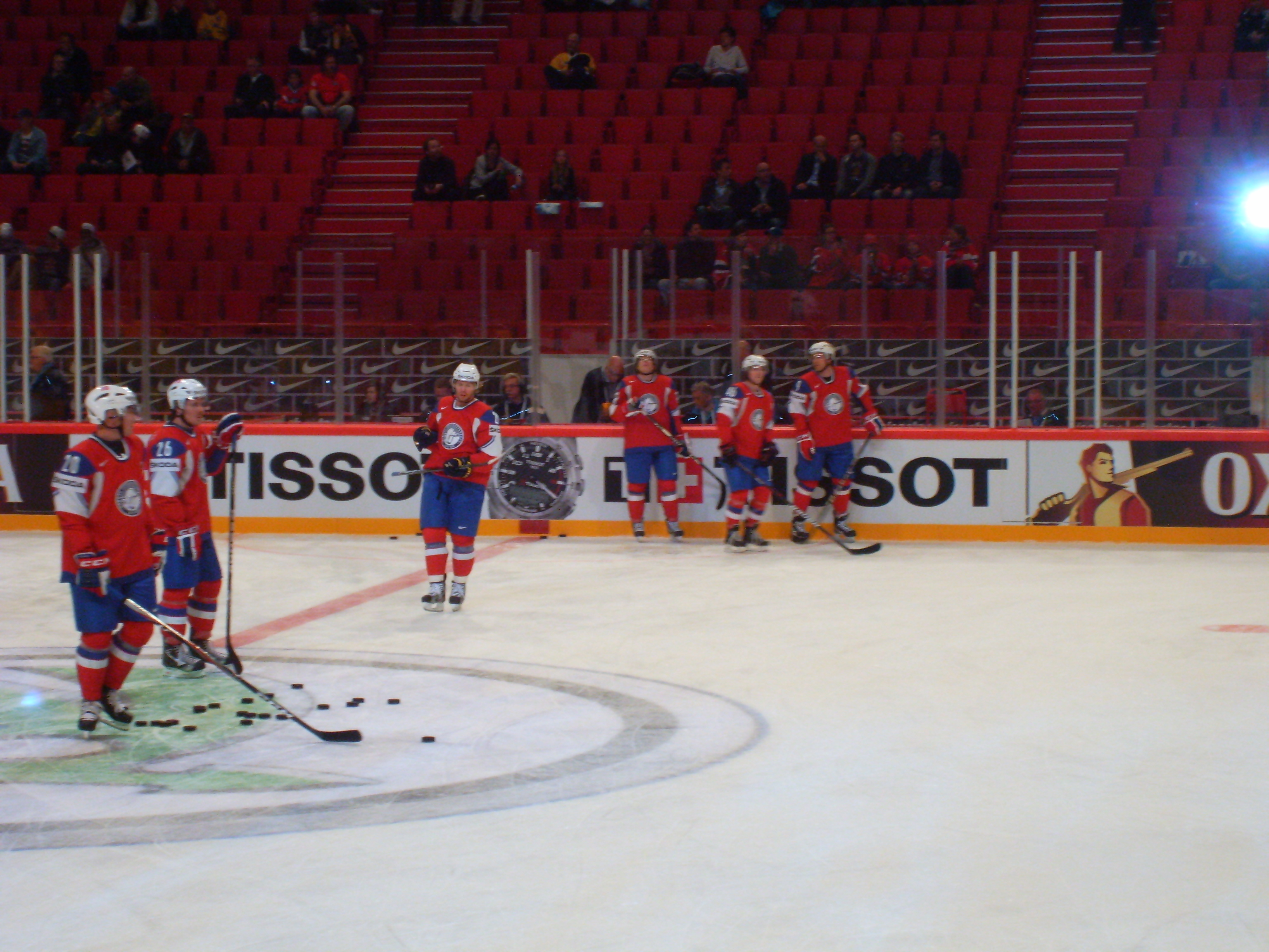 Ice hockey players from Norways national team.